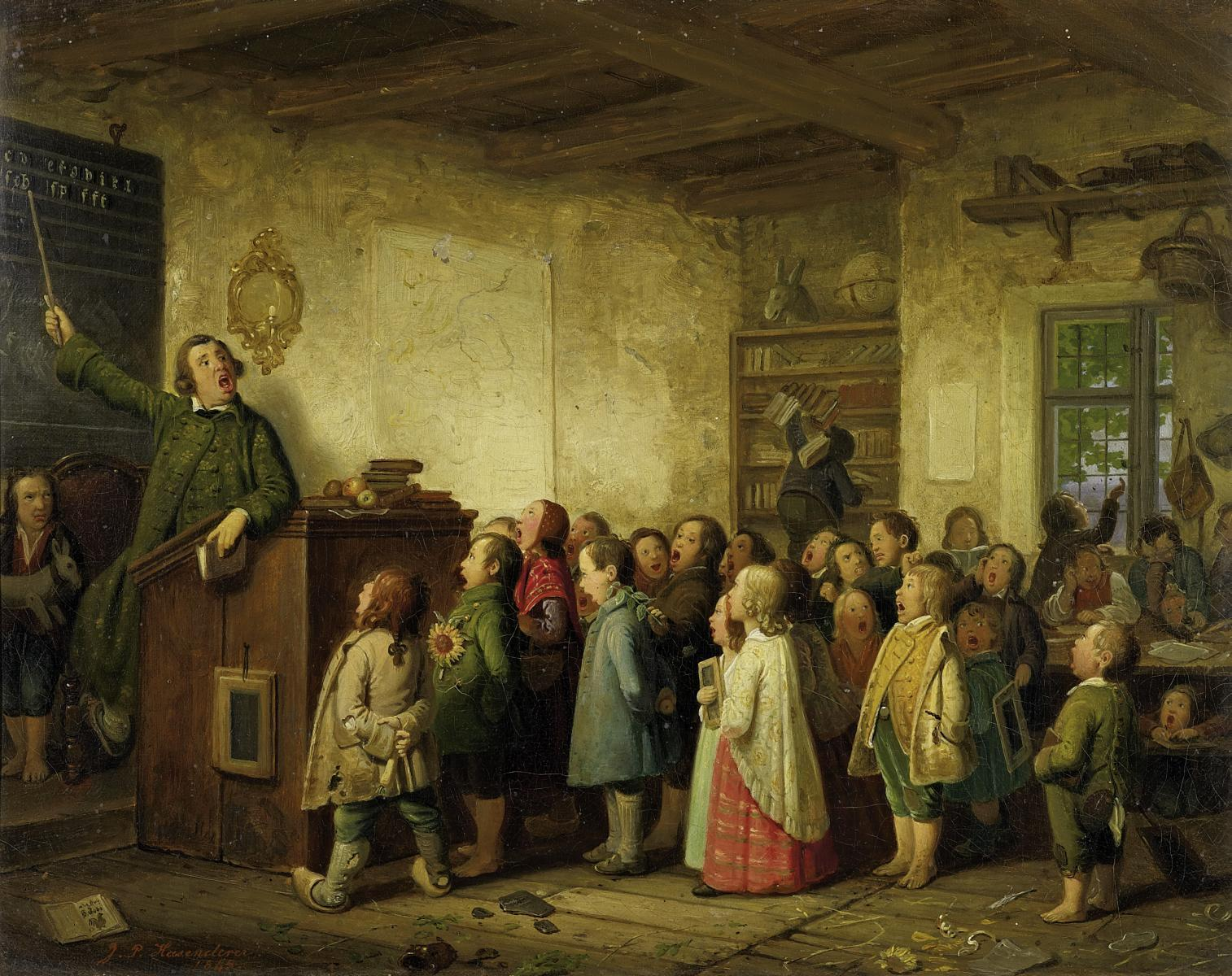 Deriving from the larger painting Jobst als Schulmeister, which can be found in the Düsseldorf Art Museum, the artist created various smaller versions, addressing this issue. The version presented here was created in the same year as the one in Düsseldorf.